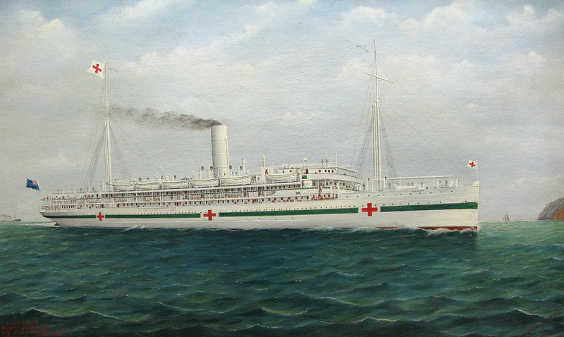 Hospital Ship Marama off Sinclair Head, Wellington